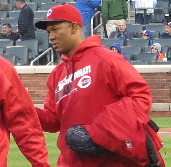 J. C. Ramírez with the Cincinnati Reds, April 27, 2016.